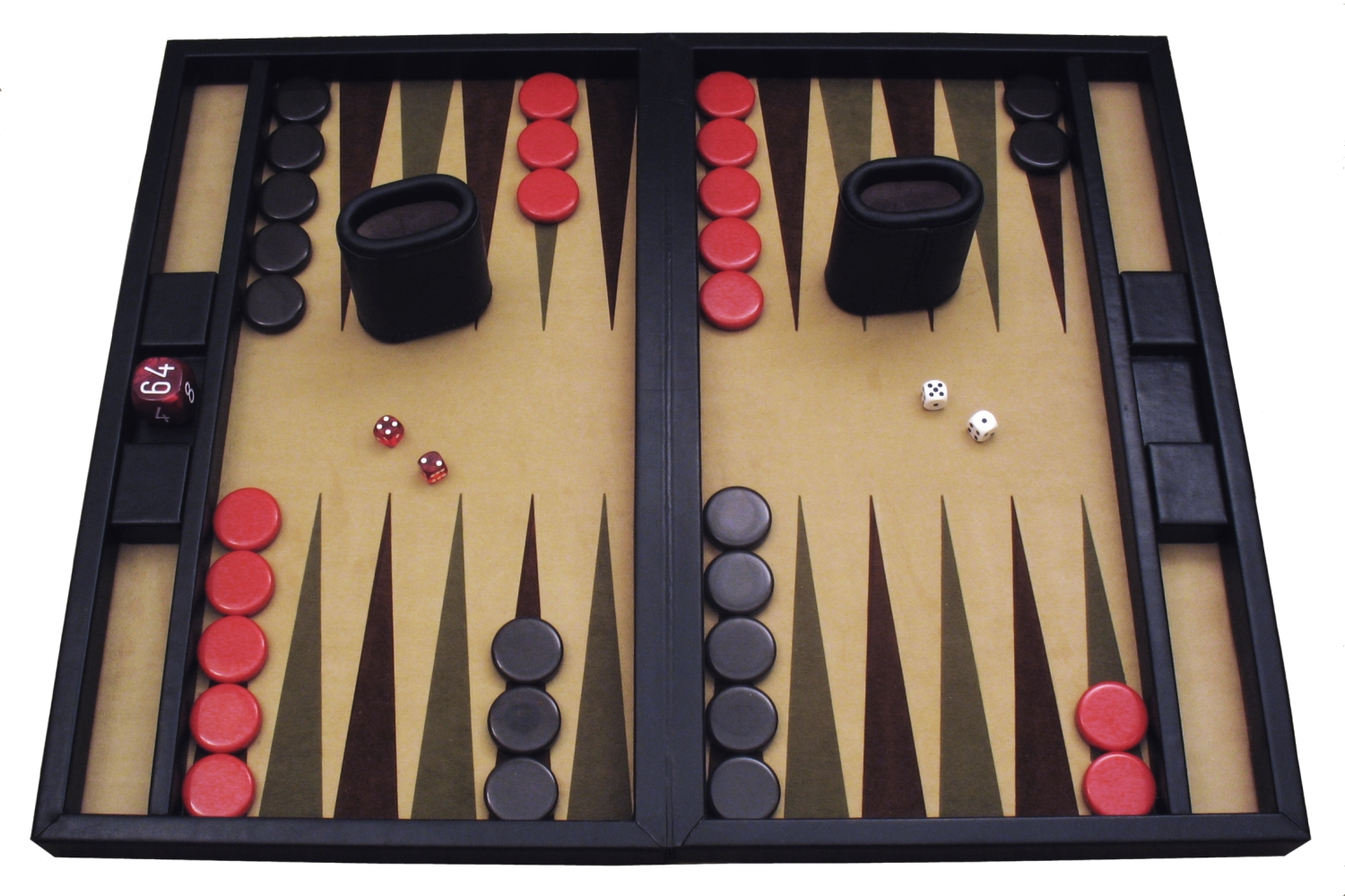 A contemporary backgammon set.